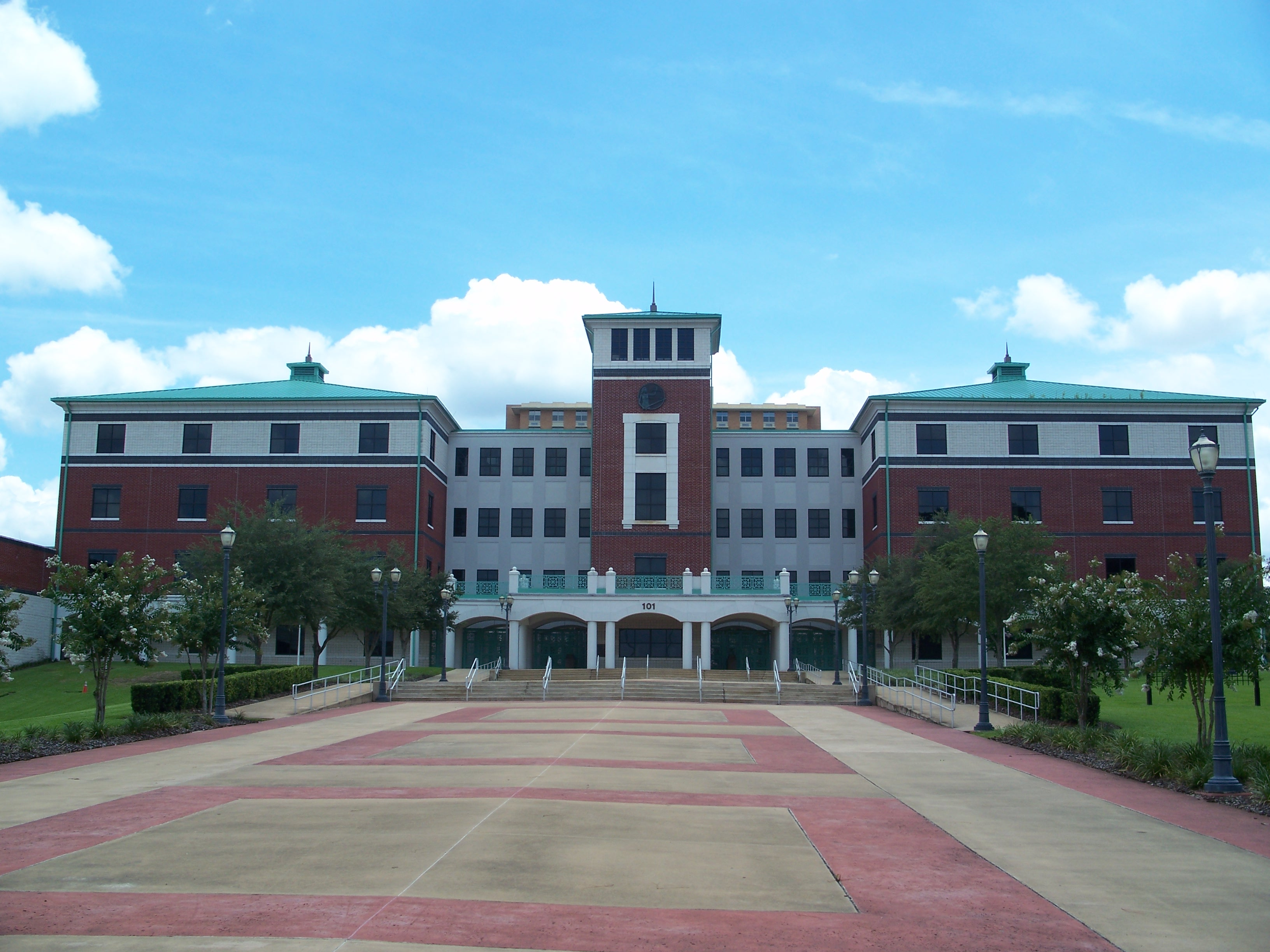 New Volusia County Courthouse, in DeLand, Florida